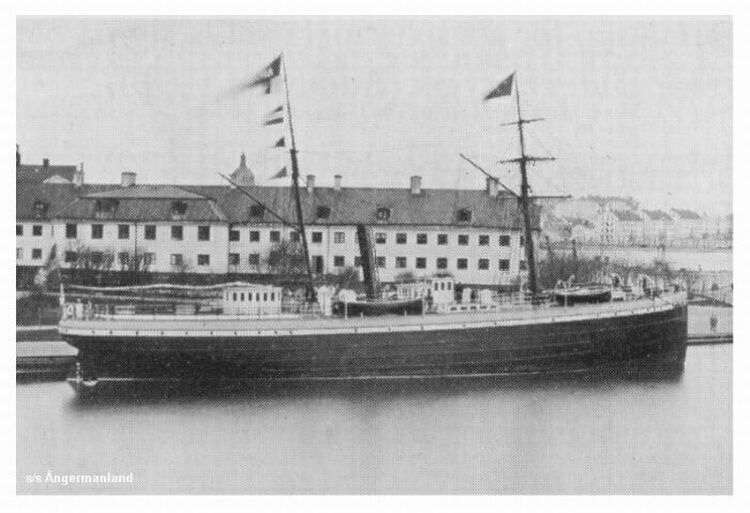 Passenger steamer S/S Ångermanland